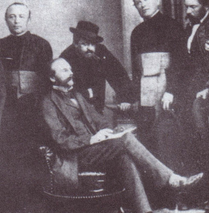 Ban (Vice-Roy) of Croatia Ladislav Pejačević